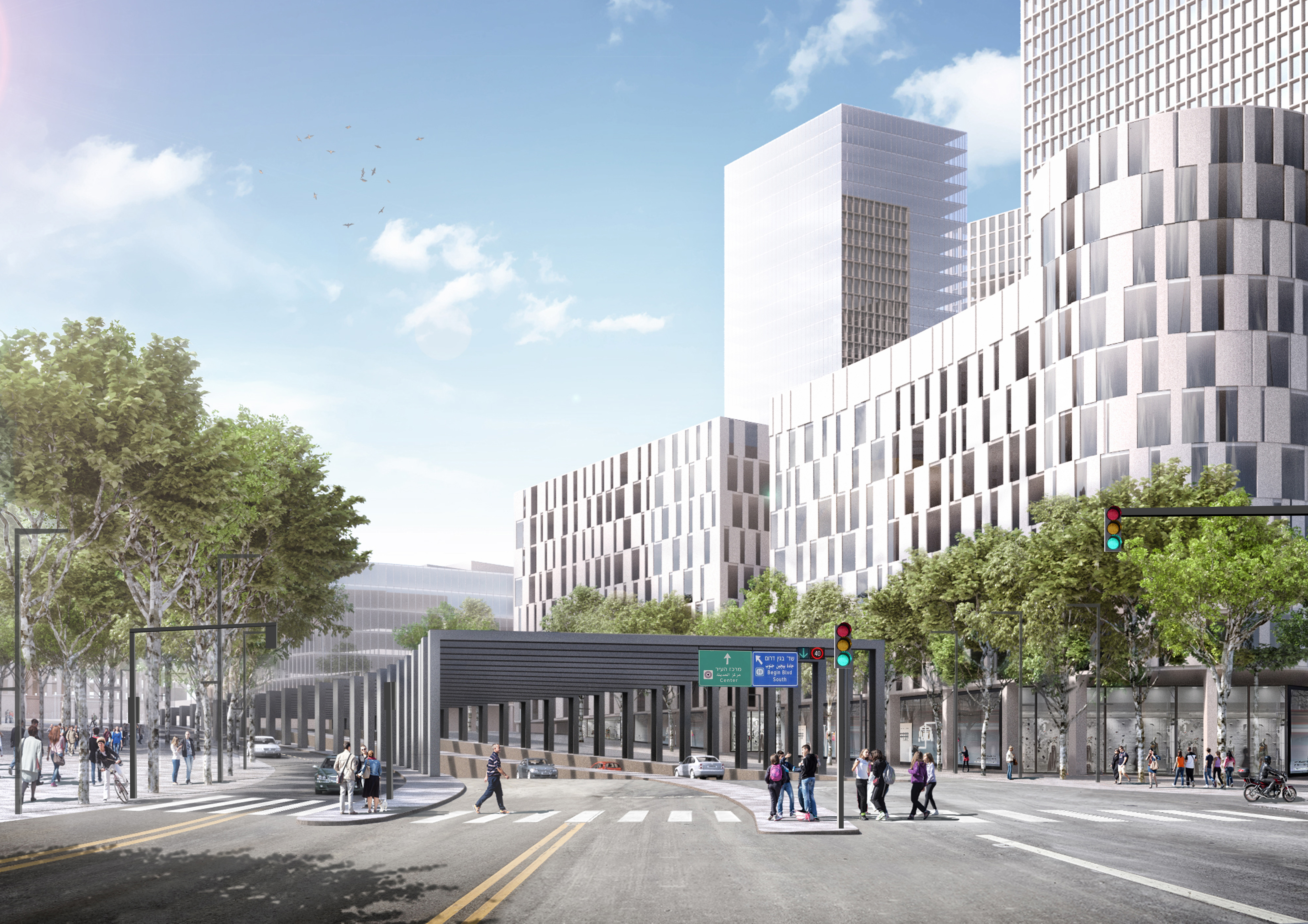 Avenue simulation